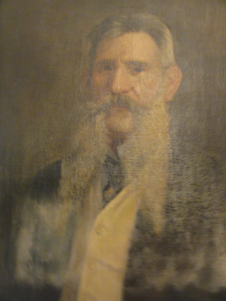 Simon Moret, Mayor of Ponce, Puerto Rico